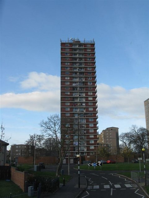 High rise housing at Pennywell One of several towerblocks in the area, Martello Court. This one is still in use, but many of the other, smaller, blocks are empty and boarded up, ready for demolition or redevelopment.